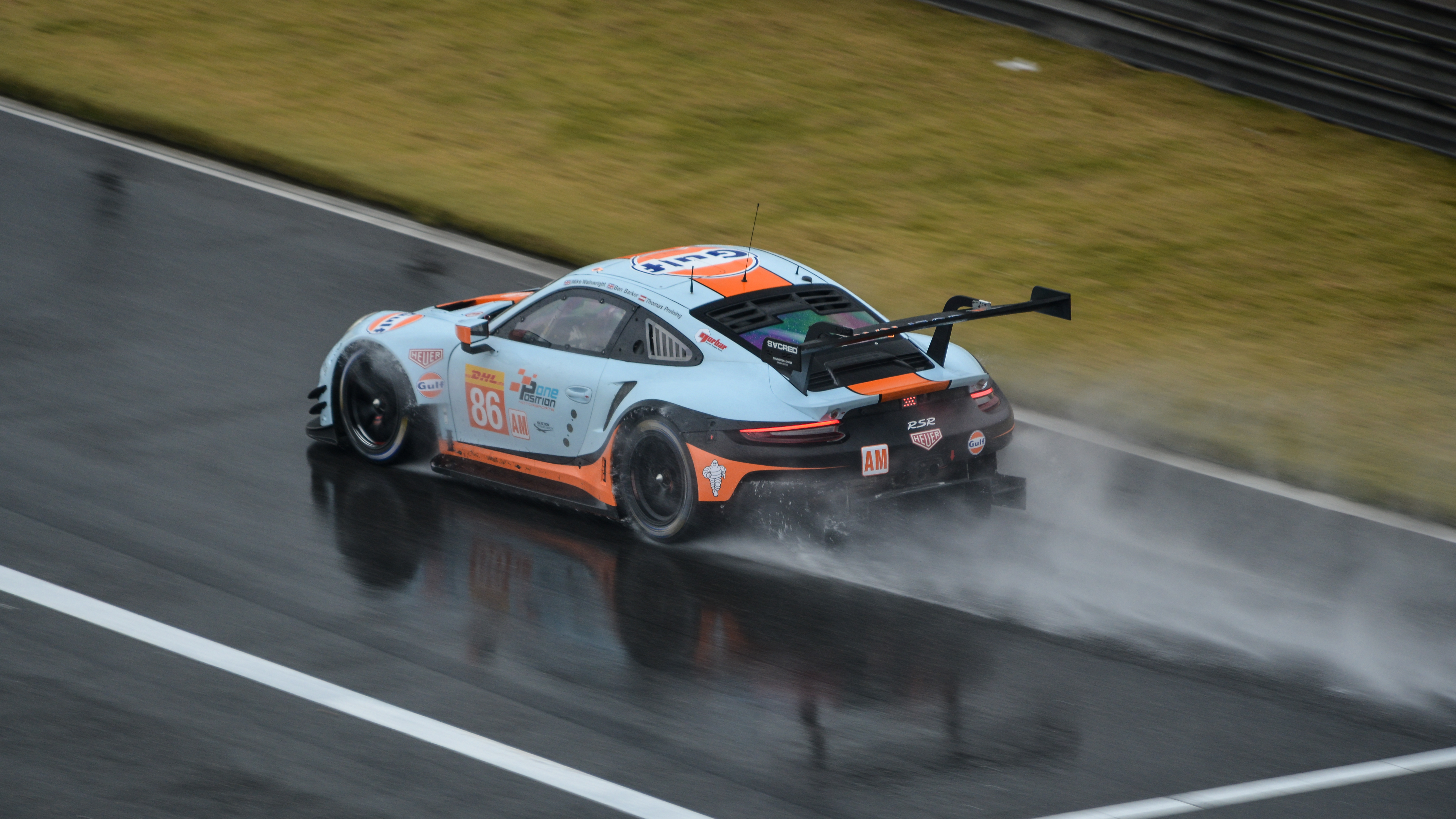 2018 6 Hours of Shanghai.